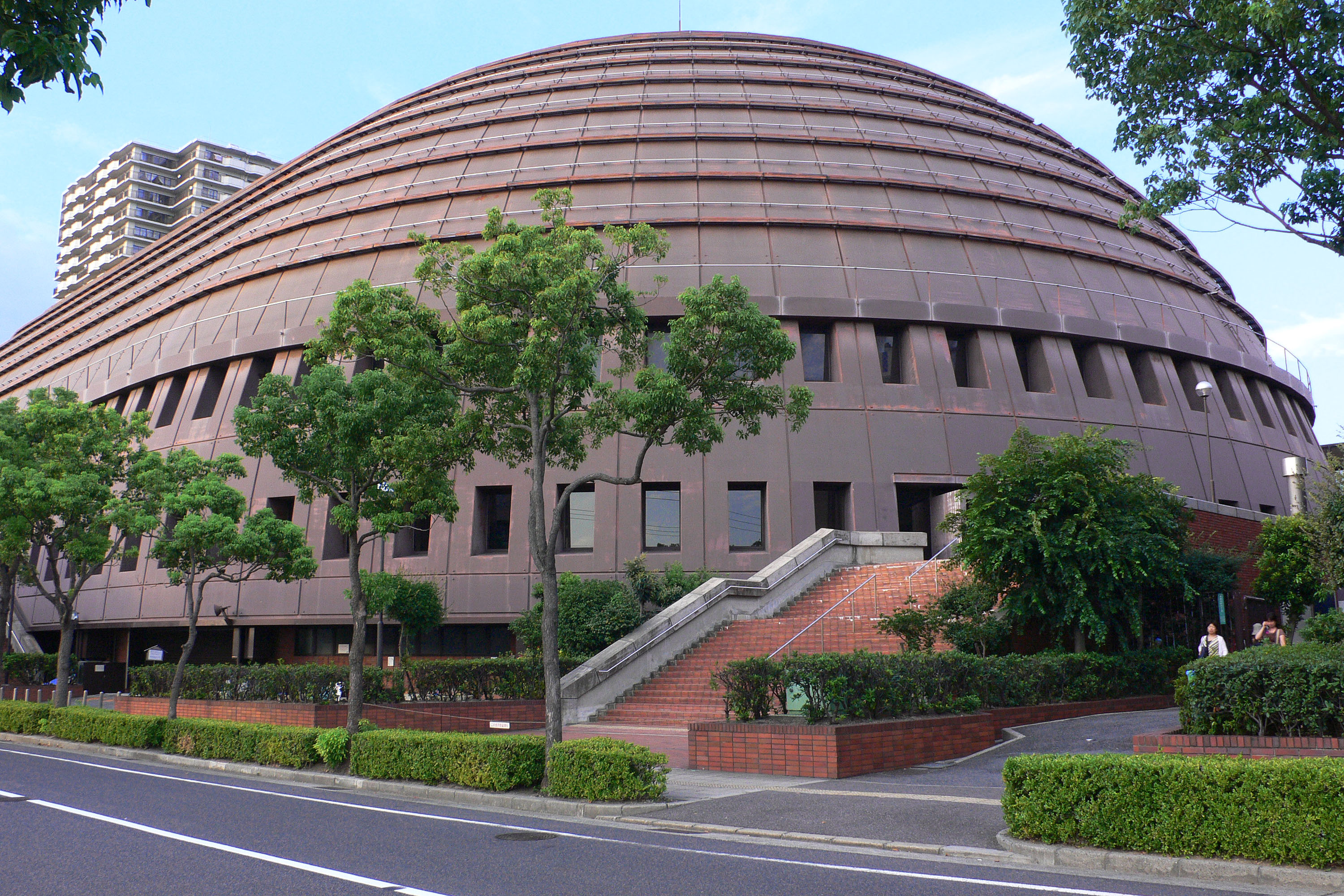 "World Memorial Hall" in Kobe, Japan